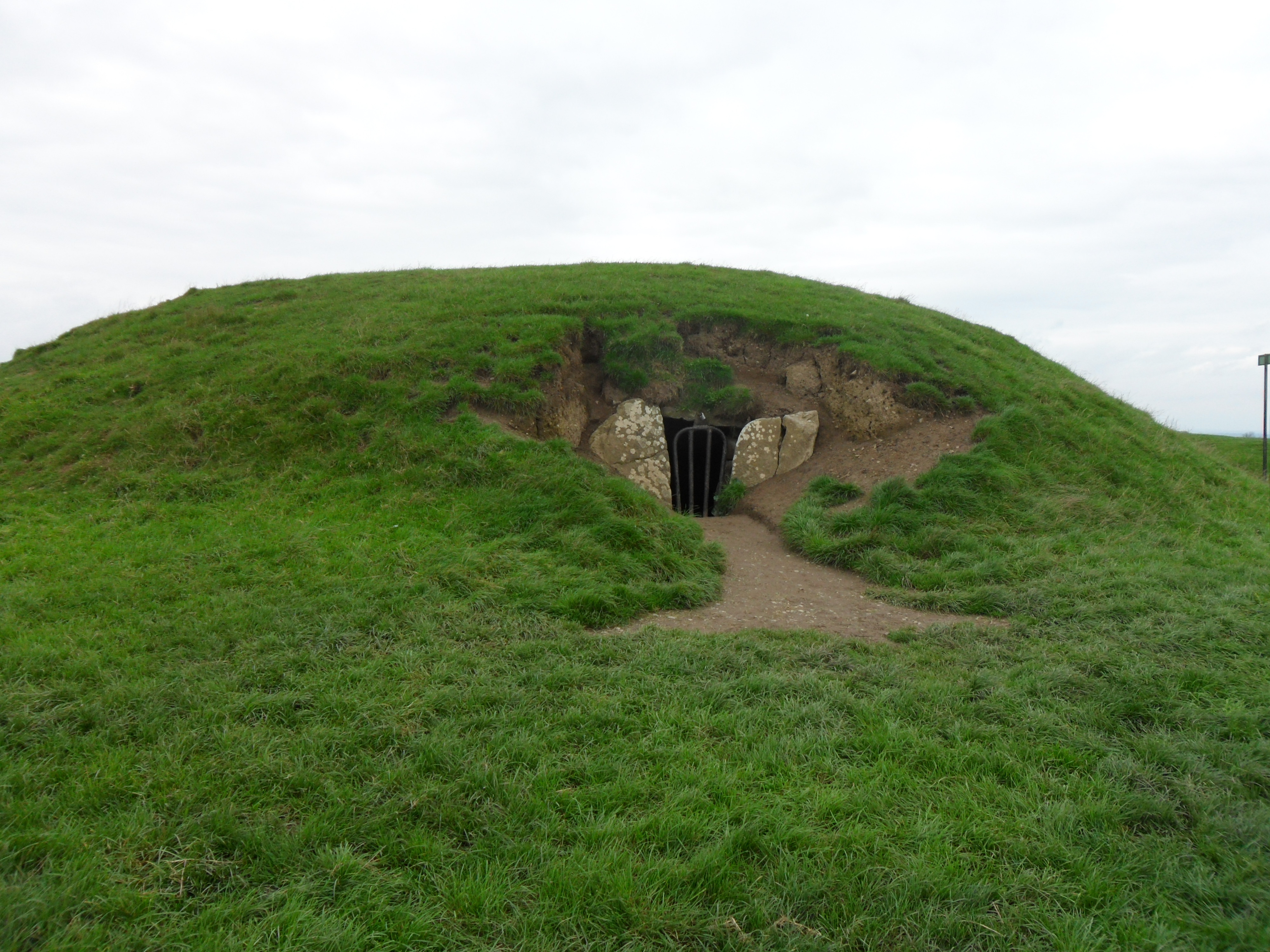 Entrance of the Mound of Hostages. Located near Ross, Ireland